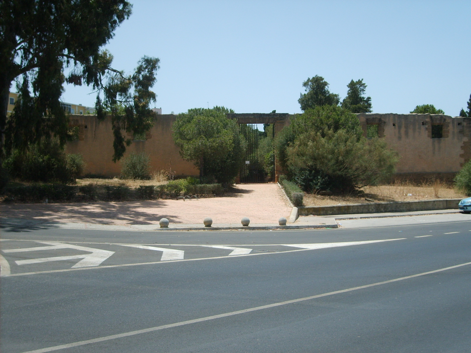 San Fernando's Botanical Garden entry.